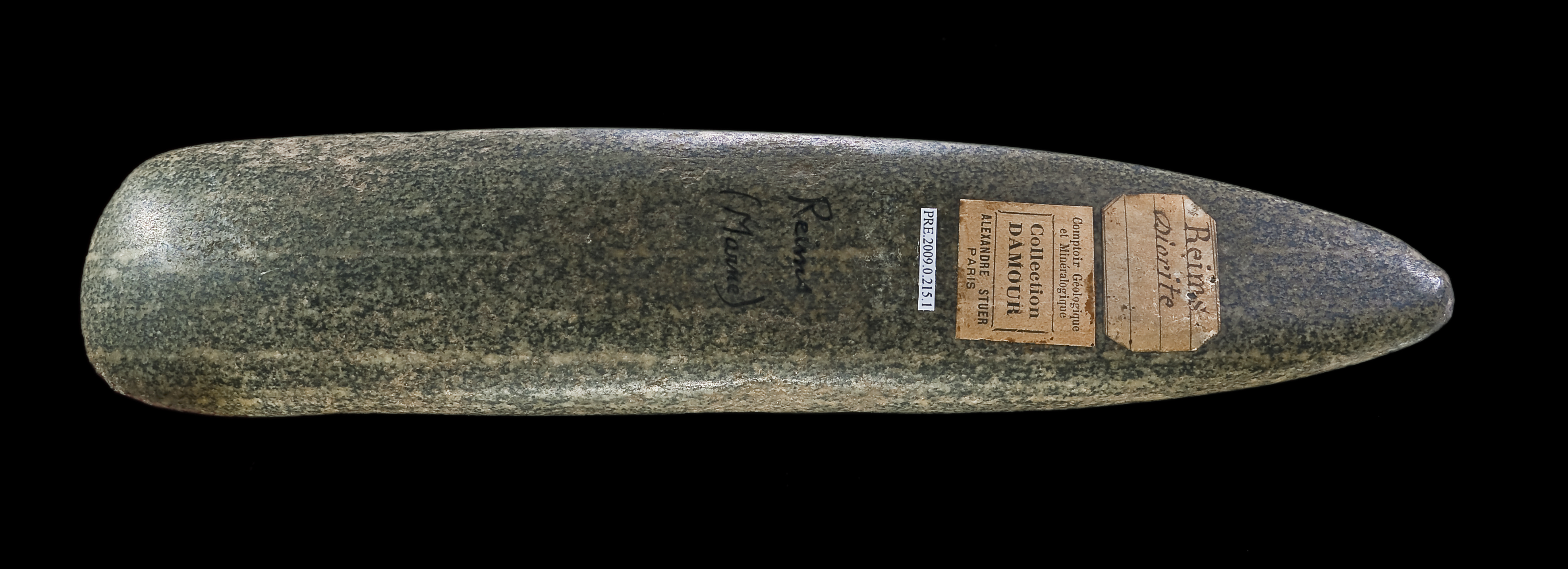 Polished Neolithic ax